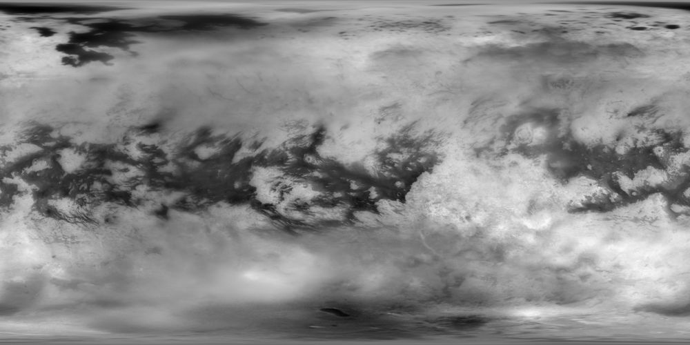 Map of Titan, cropped and rescaled for use in templates, especially location maps.